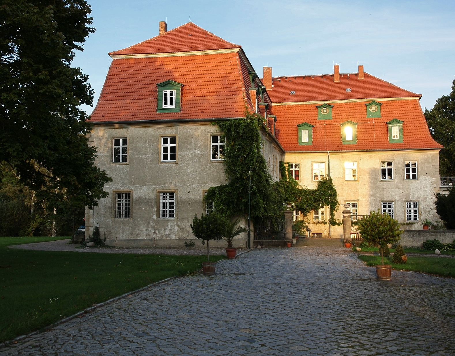 Castle of Ahlsdorf